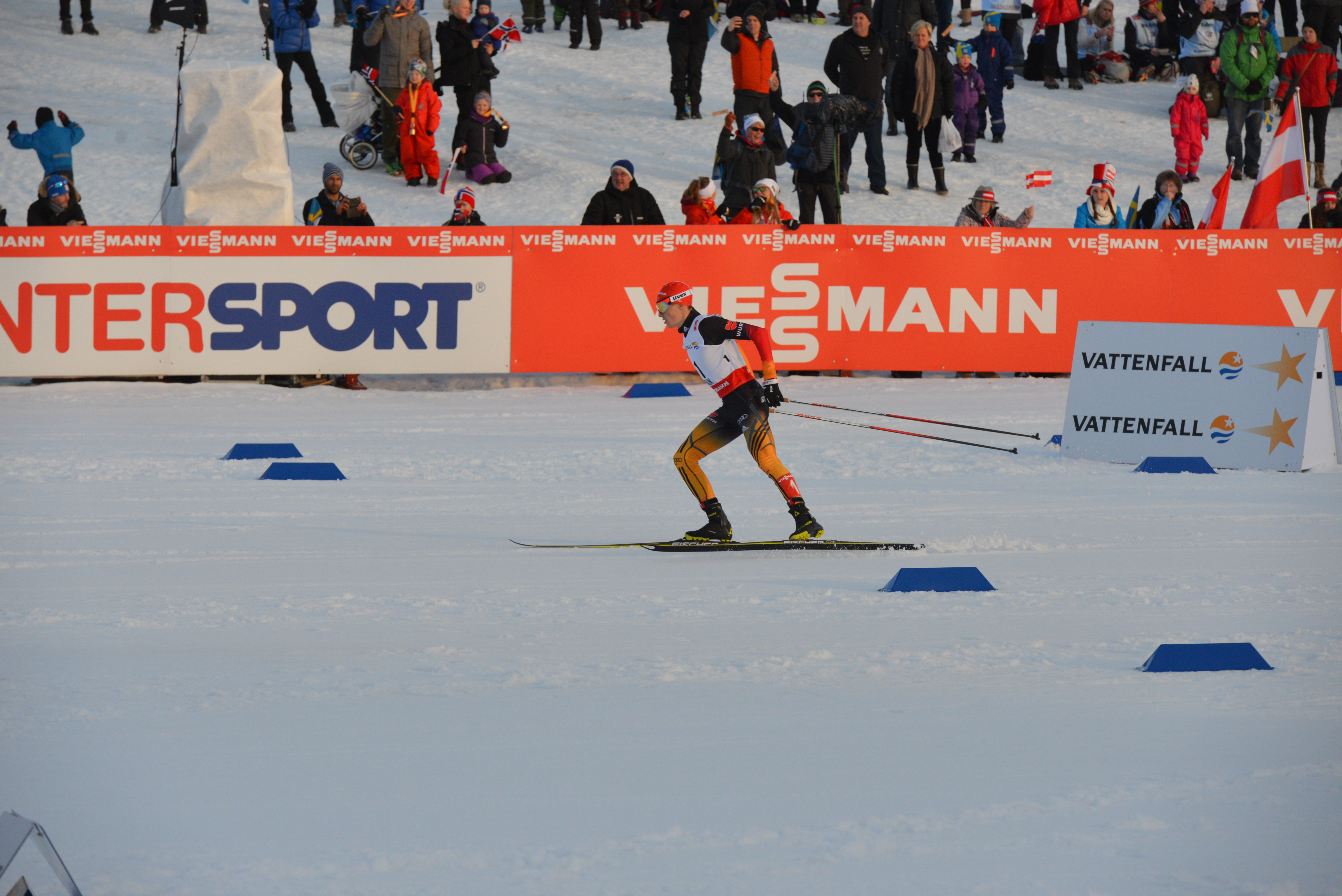 Nordic combined 10 km Gundersen individual competition at the FIS Nordic World Ski Championships 2015 in Falun